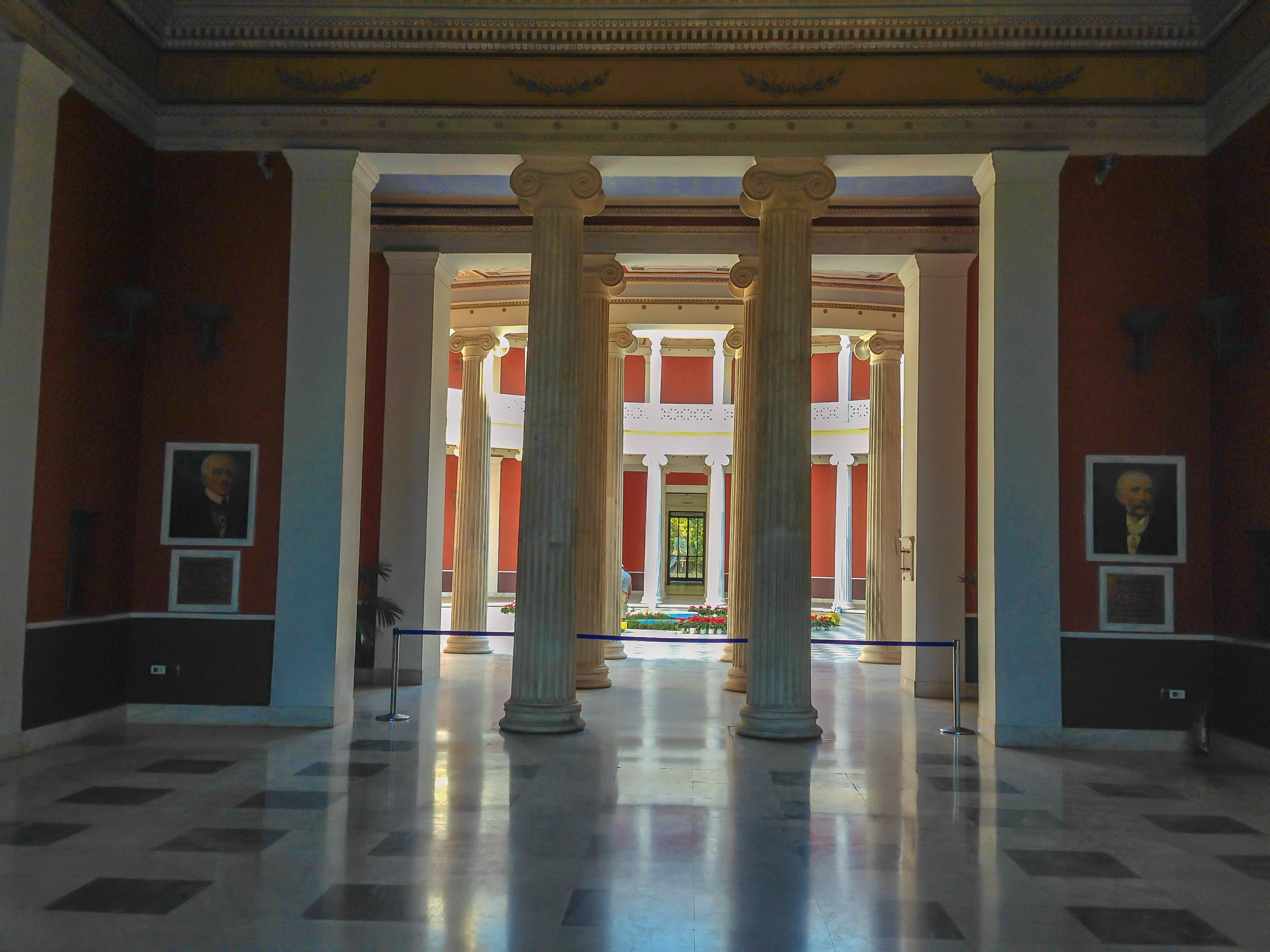 Zappeion hall was built by the Evangelos Zappas.